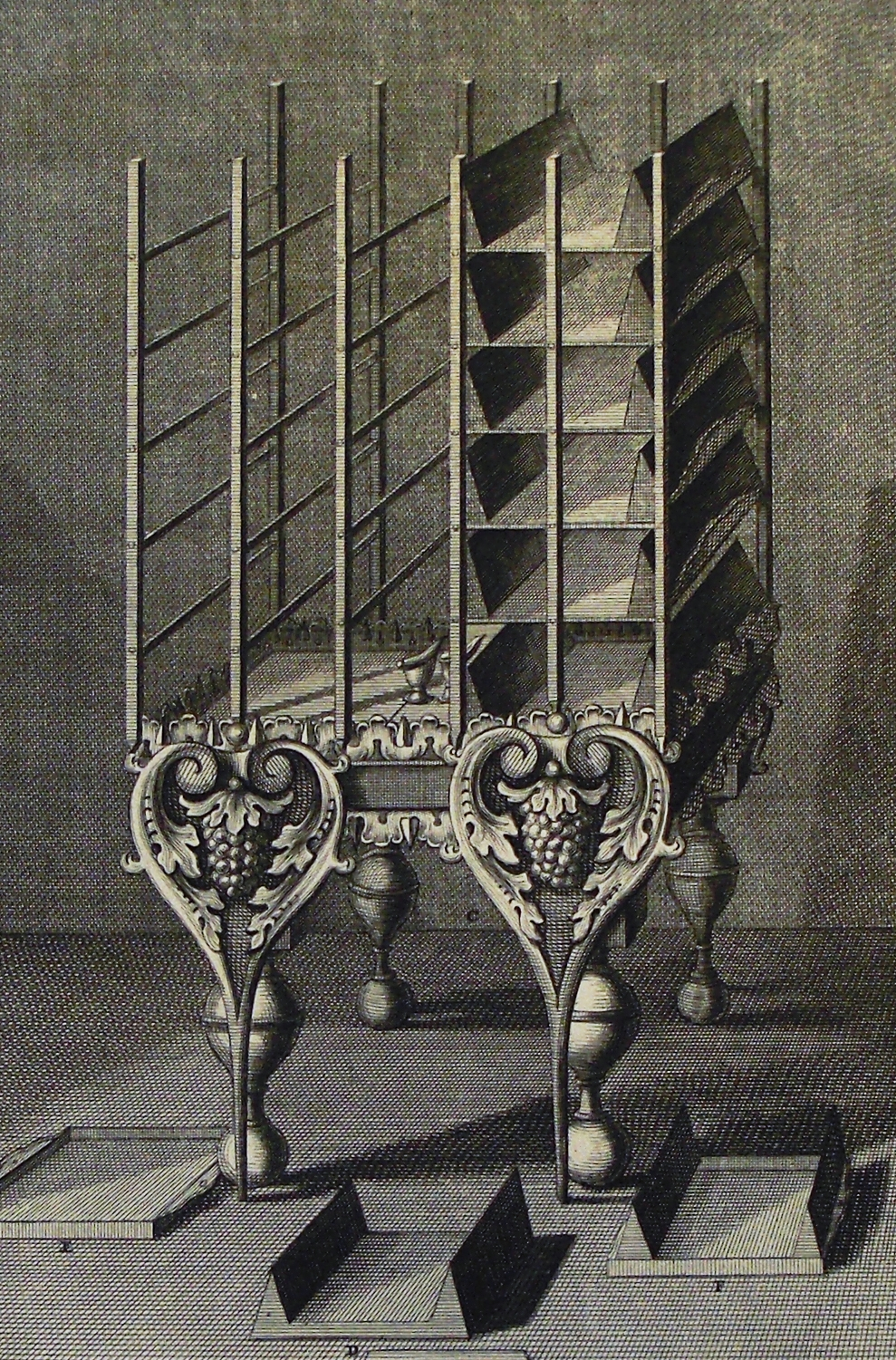 A print from the Phillip Medhurst Collection of Bible illustrations in the possession of Revd. Philip De Vere at St. George’s Court, Kidderminster, England.